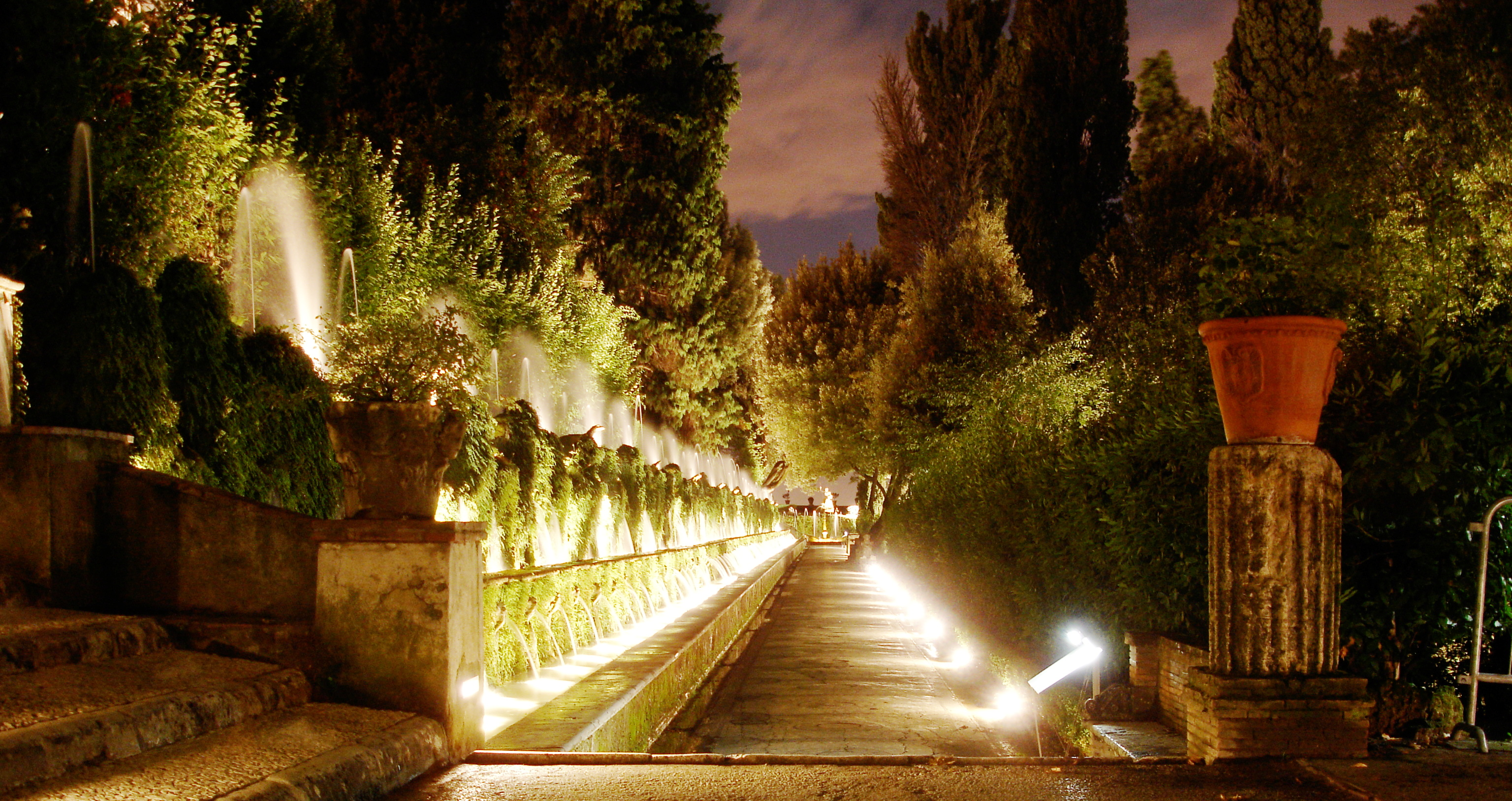 the "100 fountains" in Villa D'Este (Tivoli, Italy) at night